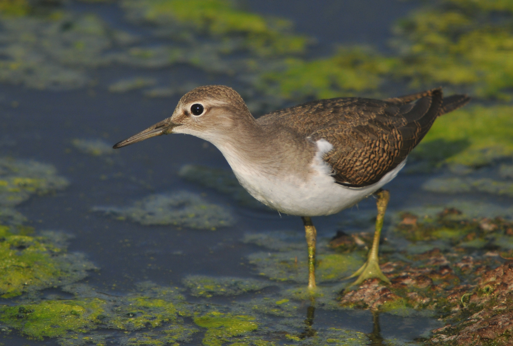 Common sandpiper